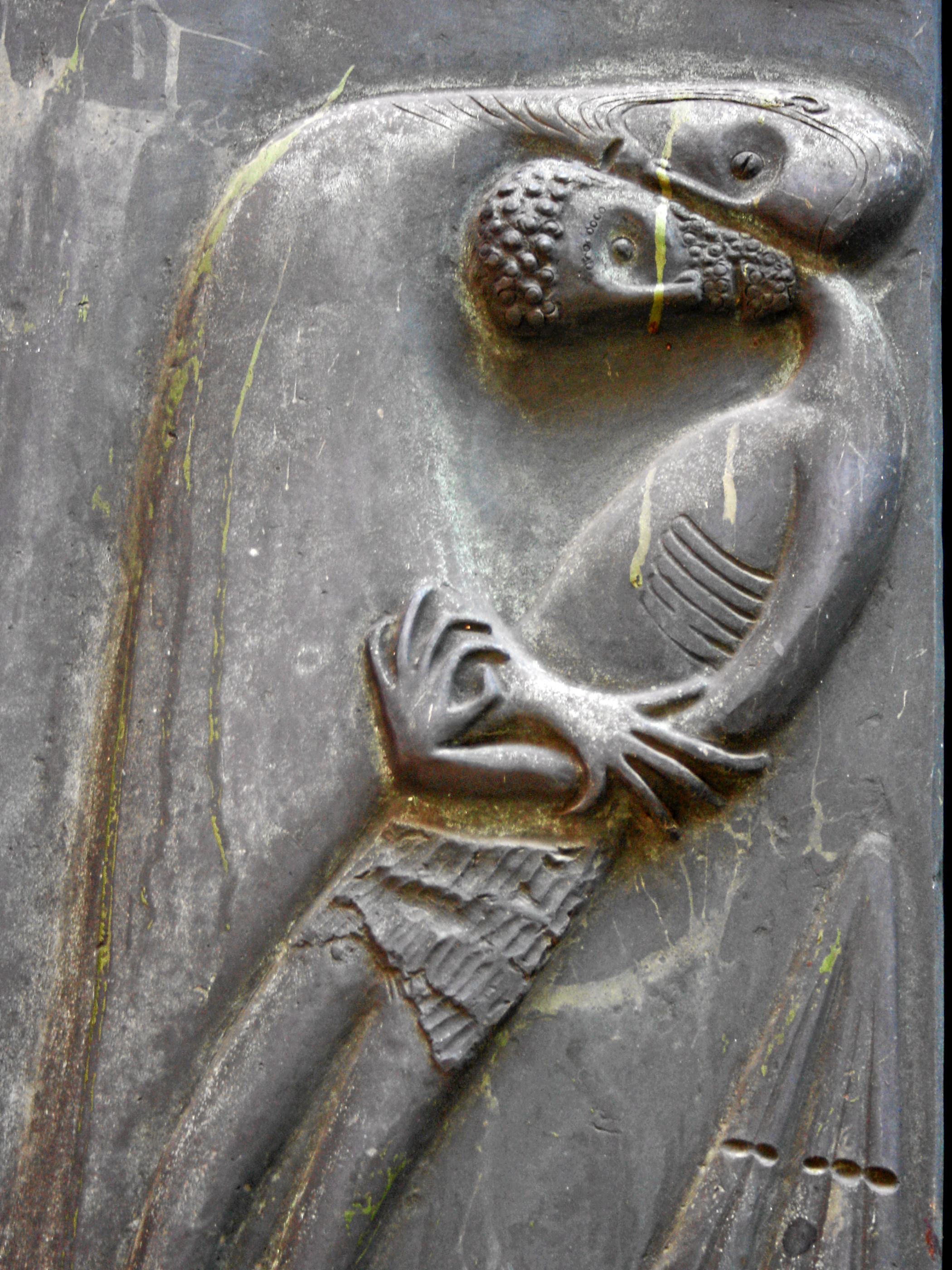 Düsseldorf, Germany. Catholic church St. Lambertus, main portal with bronze door created by Ewald Mataré. Detail: Return of the prodigal son.